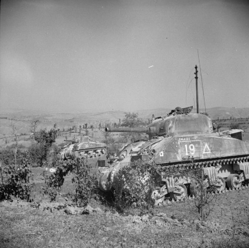 IWM caption : Two Sherman tanks of 6th Royal Tank Regiment in action against German machine-gun positions on the walls of San Marino.